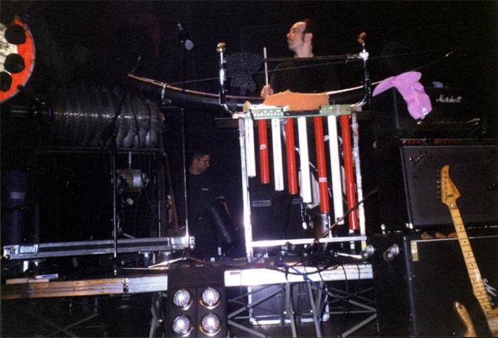 Einstürzende Neubauten live on stage at "Tollhaus" in Karlsruhe, Germany (May 19, 2000). "Silence Is Sexy/20th Anniversary Tour". Photo is made by myself on photo: N.U. Unruh and Neubauten's self-made instruments